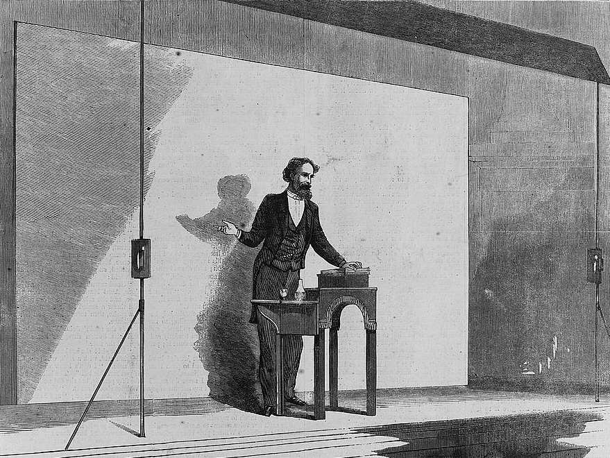 "Charles Dickens as he appears when reading." Wood engraving from a sketch by Charles A. Barry (1830-1892). Illustration in Harper's Weekly, v. 11, no. 571, 7 December 1867, p. 777.